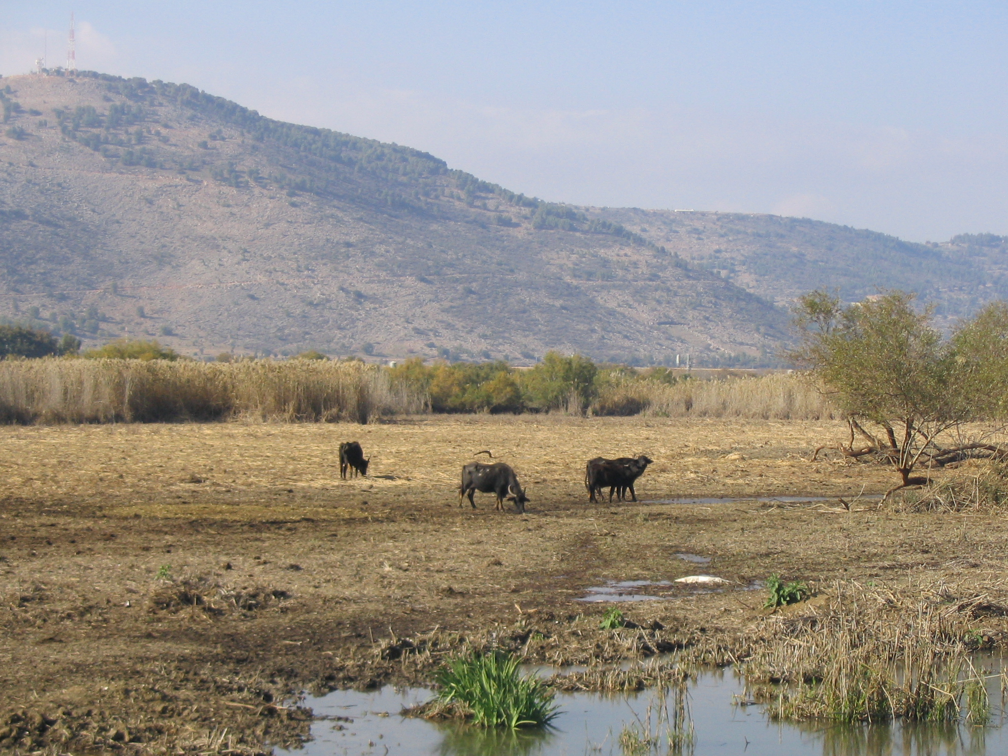 A picture of several buffaloes in the Hulah Valley Reservation, Northern Israel.